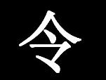 Provisional Black Flag Army flag icon